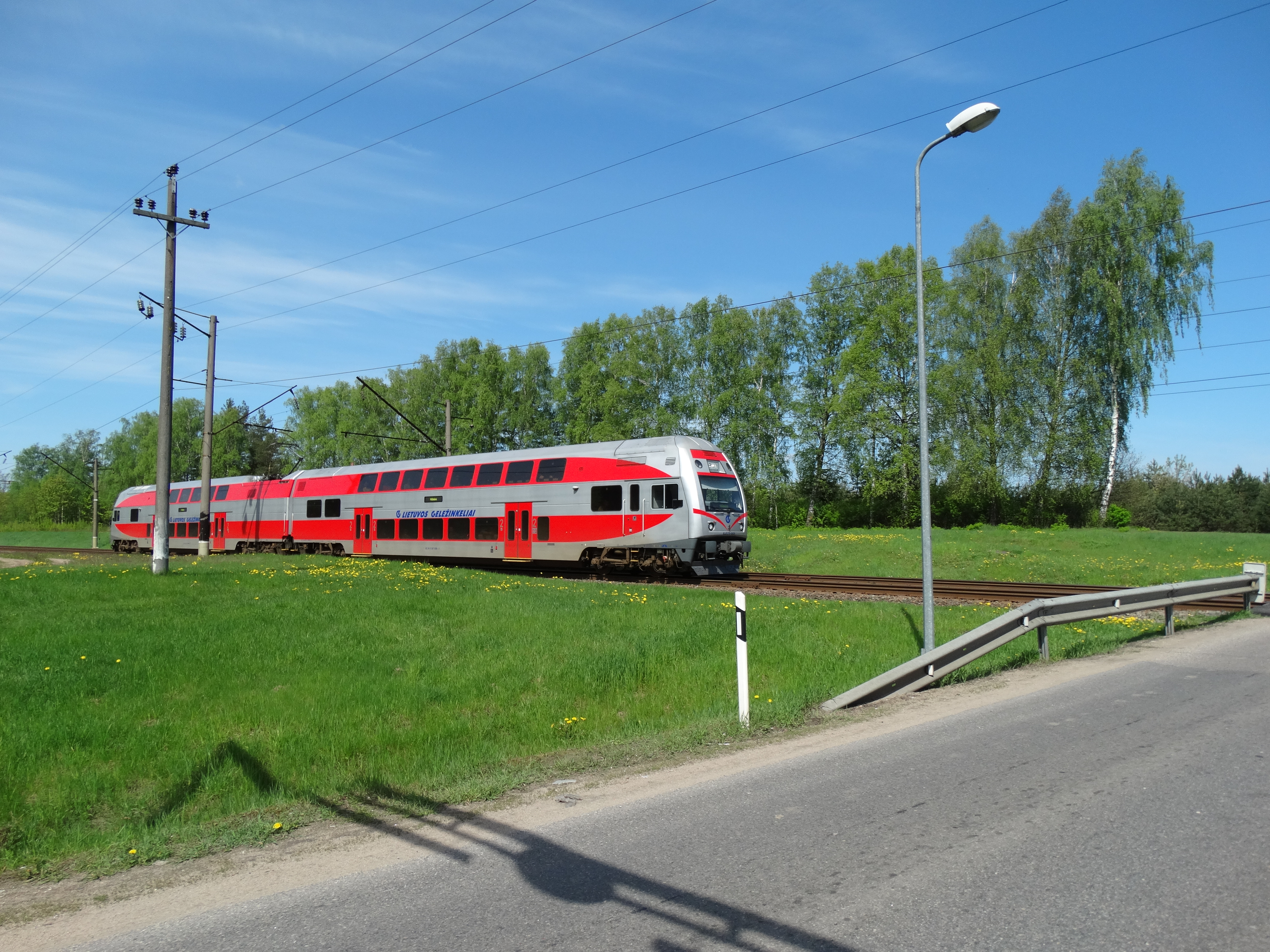 Train LG Class 575, Vievis, Lithuania